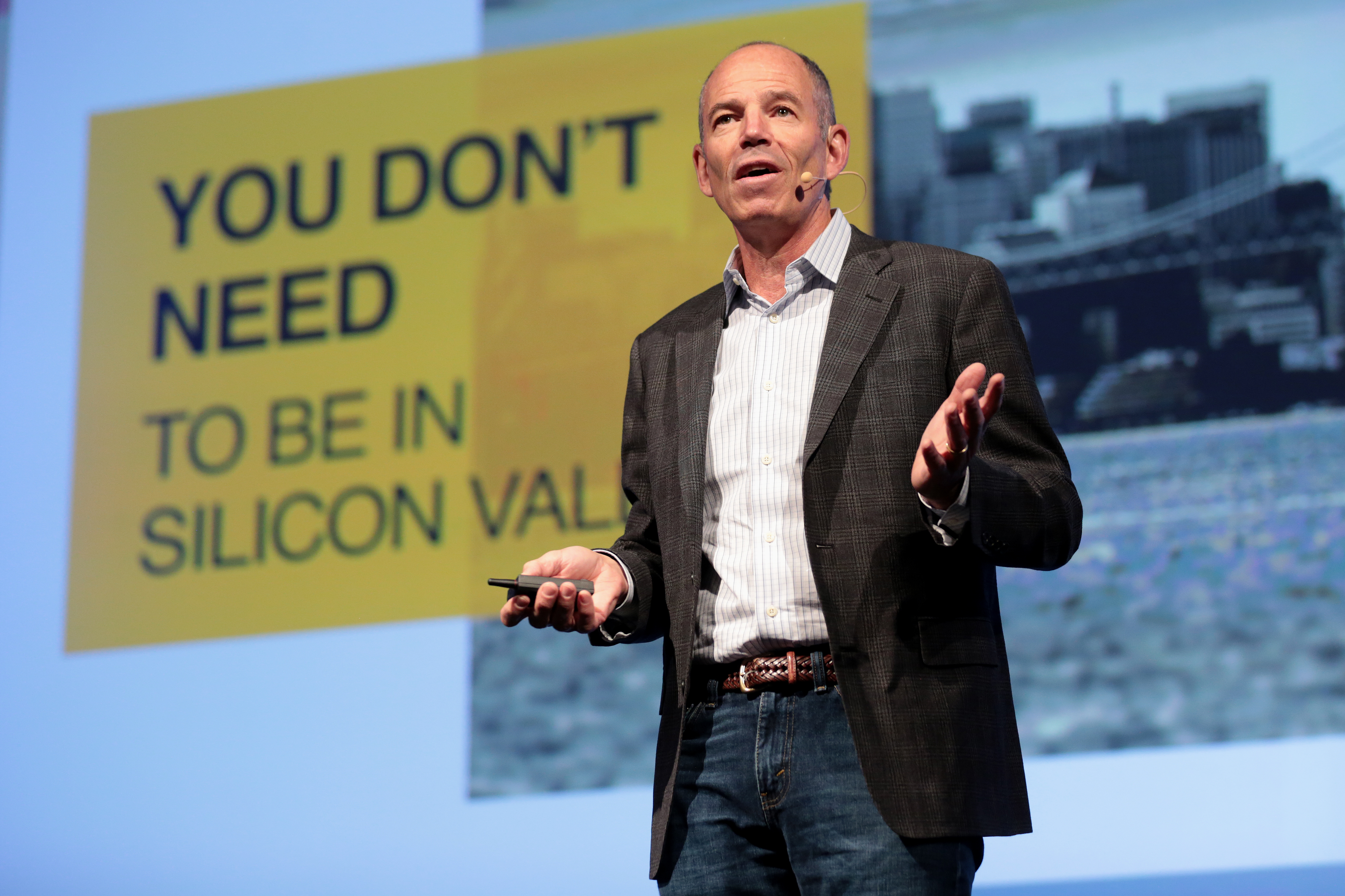 Marc Randolph, co-founder of Netflix, speaking with attendees at the 2017 Cloud Summit hosted by Ingram Micro at the JW Marriott Desert Ridge Resort & Spa in Phoenix, Arizona.